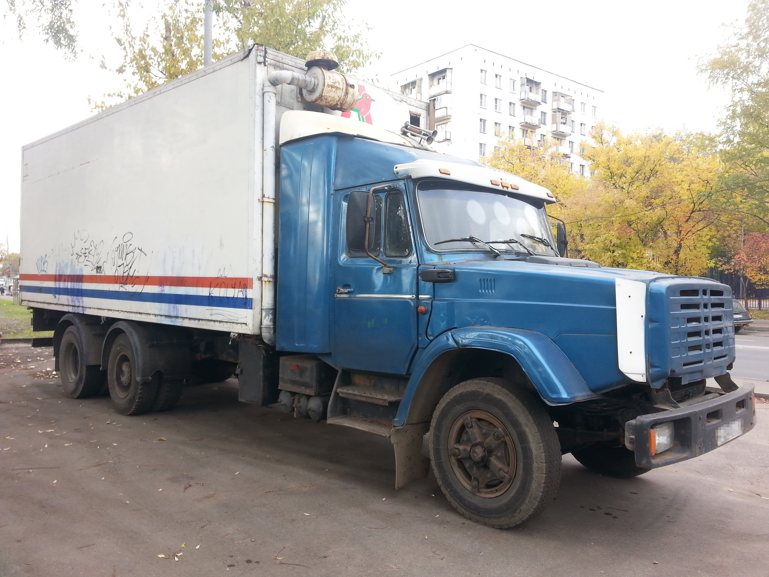 Flatbed truck ZIL-133G40 in Moscow